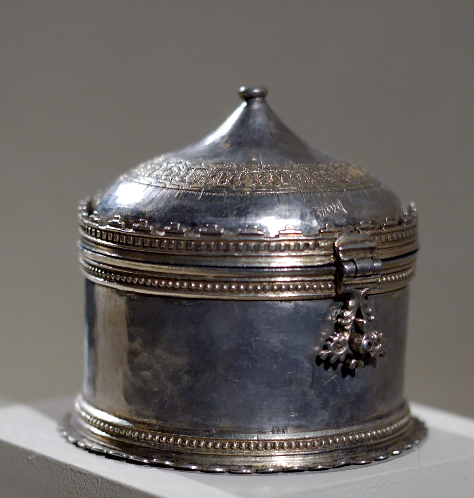 Pyx bearing the inscription "BENEDICTUS QUI VENIT IN NOMINE DOMYNI (sic)" ("blessed he who comes in the name of the Lord", and the hallmark "MON". Partly gilt silver, Southern France or Spain, 15th century.